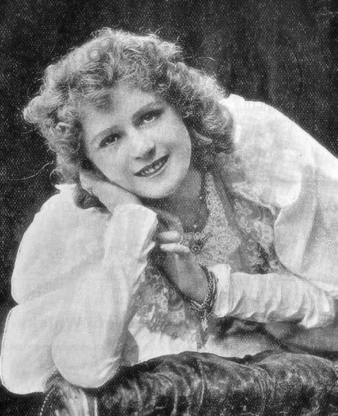 British actress Mabel Love